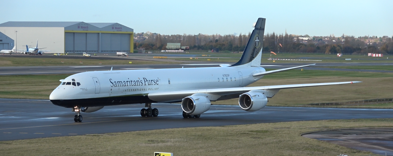 Samaritan's Purse Douglas DC-8-72CF tail number: N782SP at Birmingham Airport (England, UK)